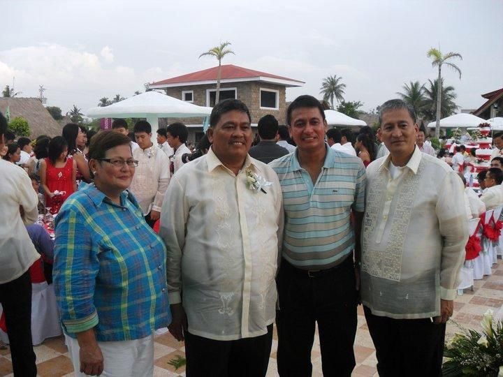 Sibblings Margaret F. Celeste, Jesus 'Boying' F. Celeste ([1]Representative, Pangasinan, 1st District, House of Representatives, Quezon City), former Cong. Arthur F. Celeste, Pangasinan, 1st, Lakas-Kampi-CMD[2], 14th Congress of the Philippines) & Mayor Alfrons F. Celeste[3] (photo, 11-21, 2010)